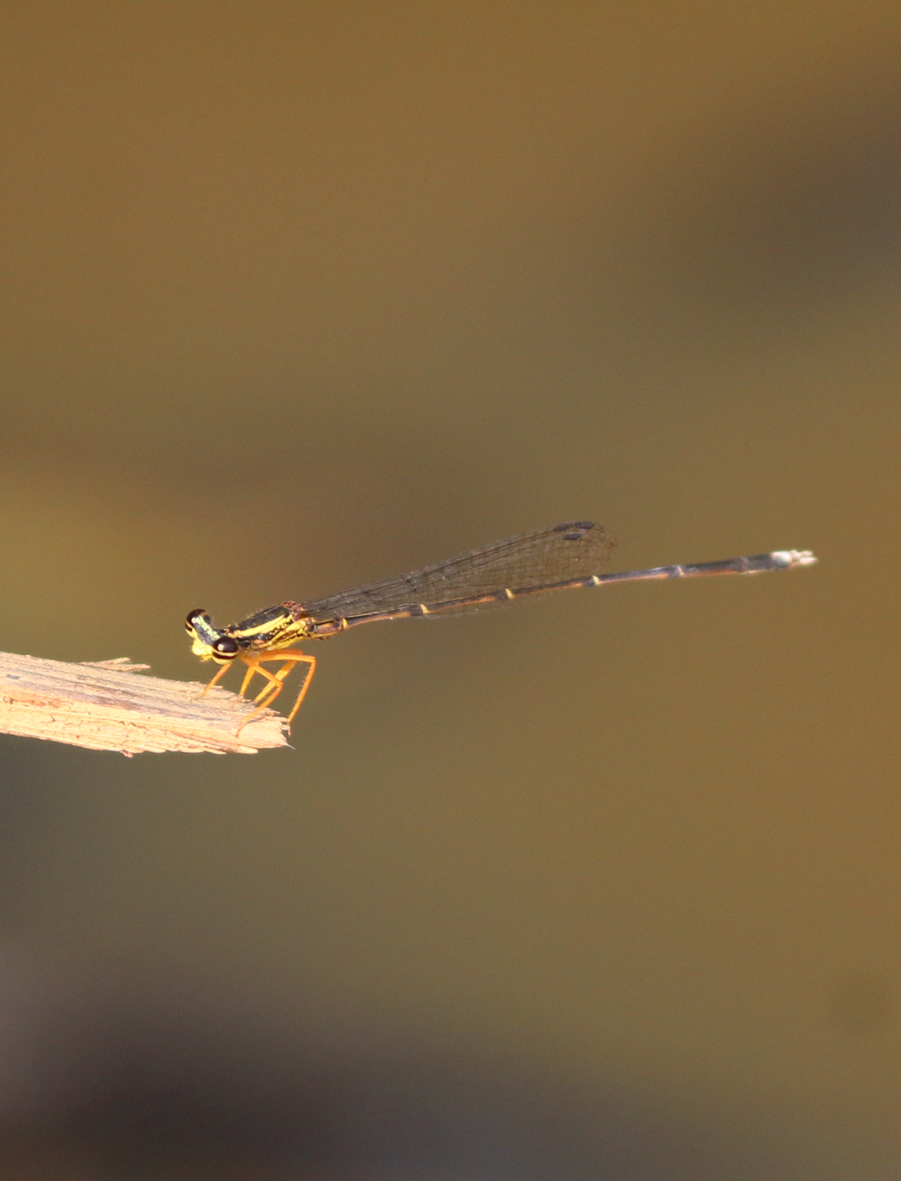 yellow bush dart